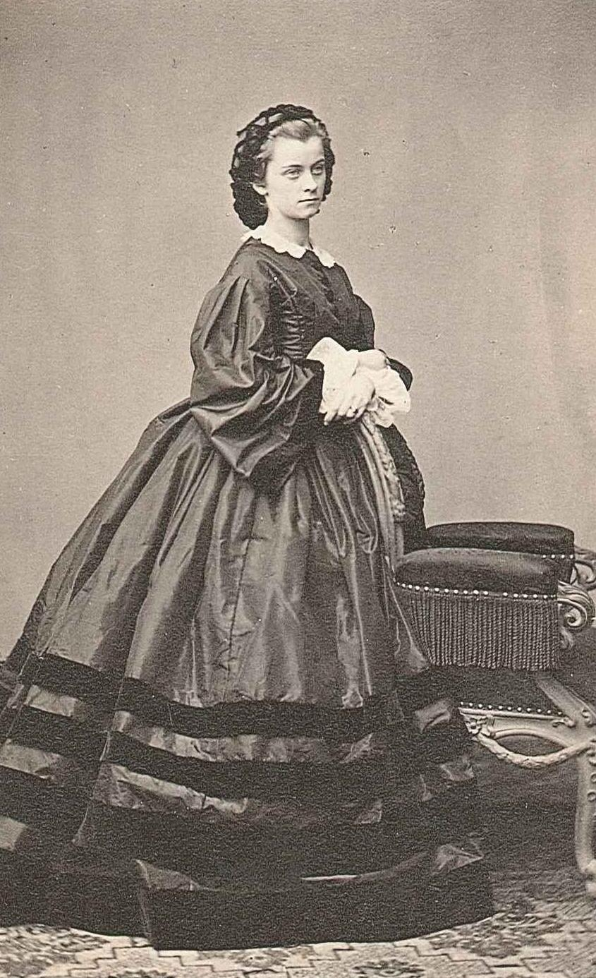 Portrait of Duchess Sophie Charlotte in Bavaria (1847-1897)